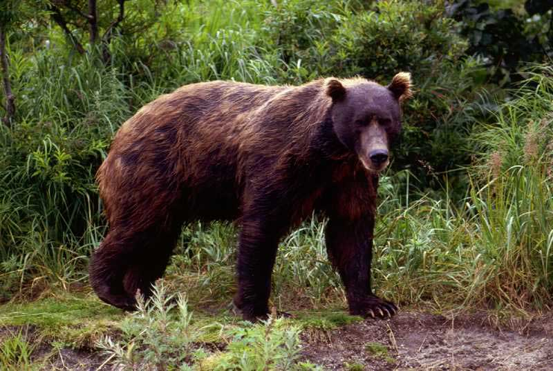 Brown Bear in Spring